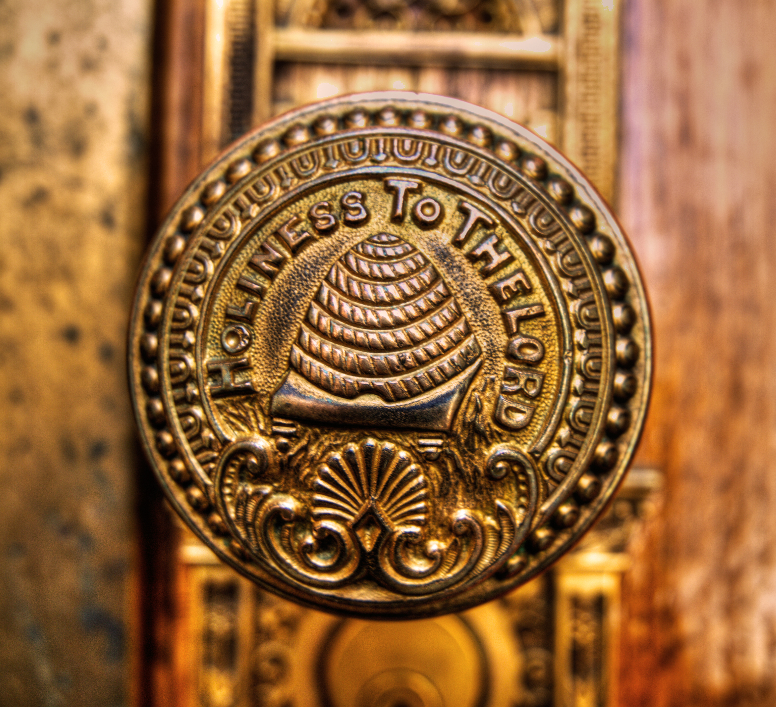 A doorknob of the Salt Lake Temple, crafted in 1893